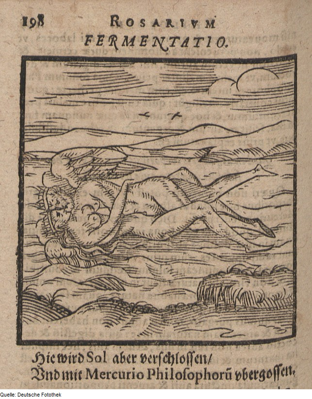 Original image description from the Deutsche Fotothek Theosophie & Alchemie